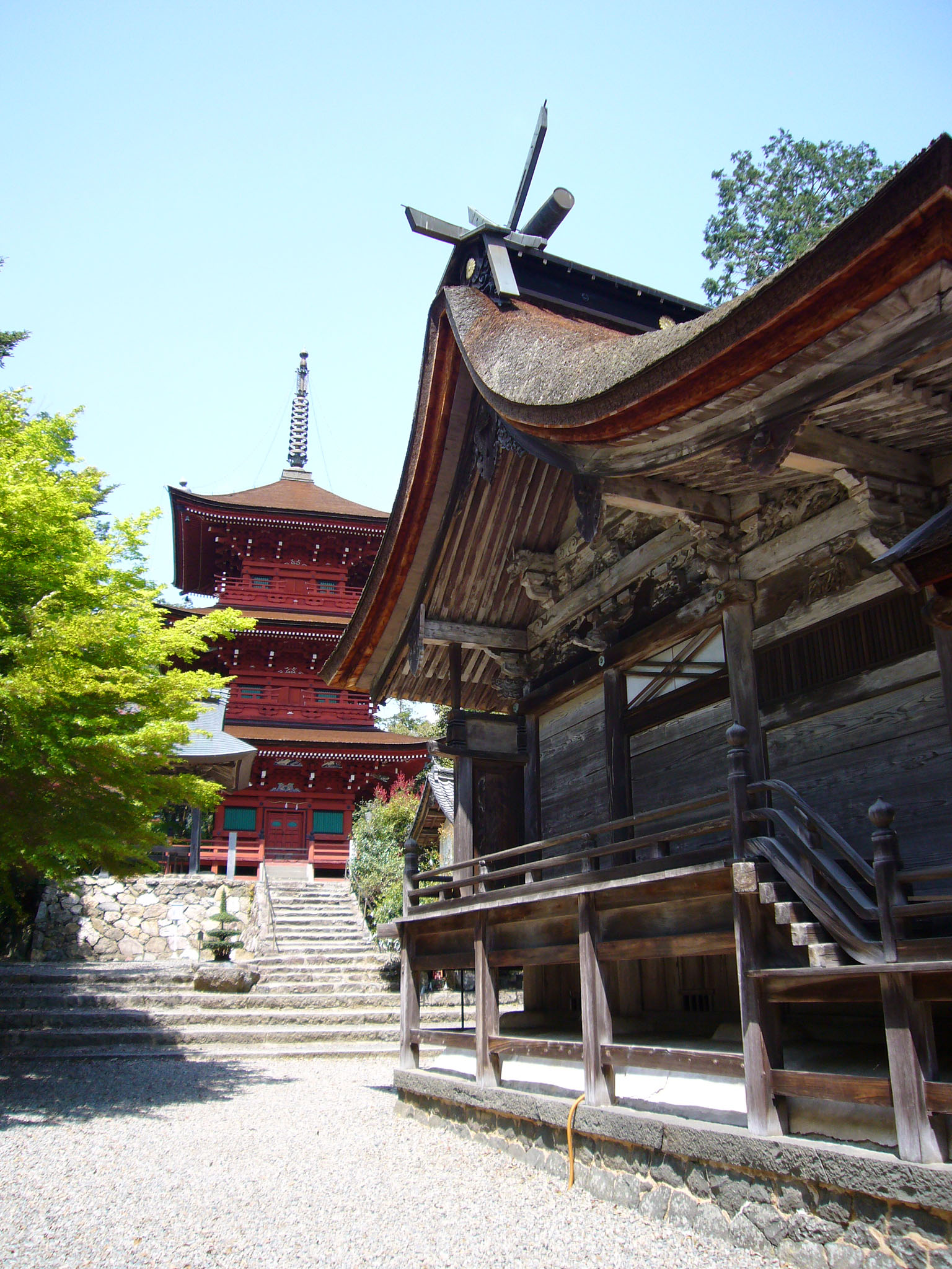 Kaibara Hachiman Jinja in Tamba, Japan